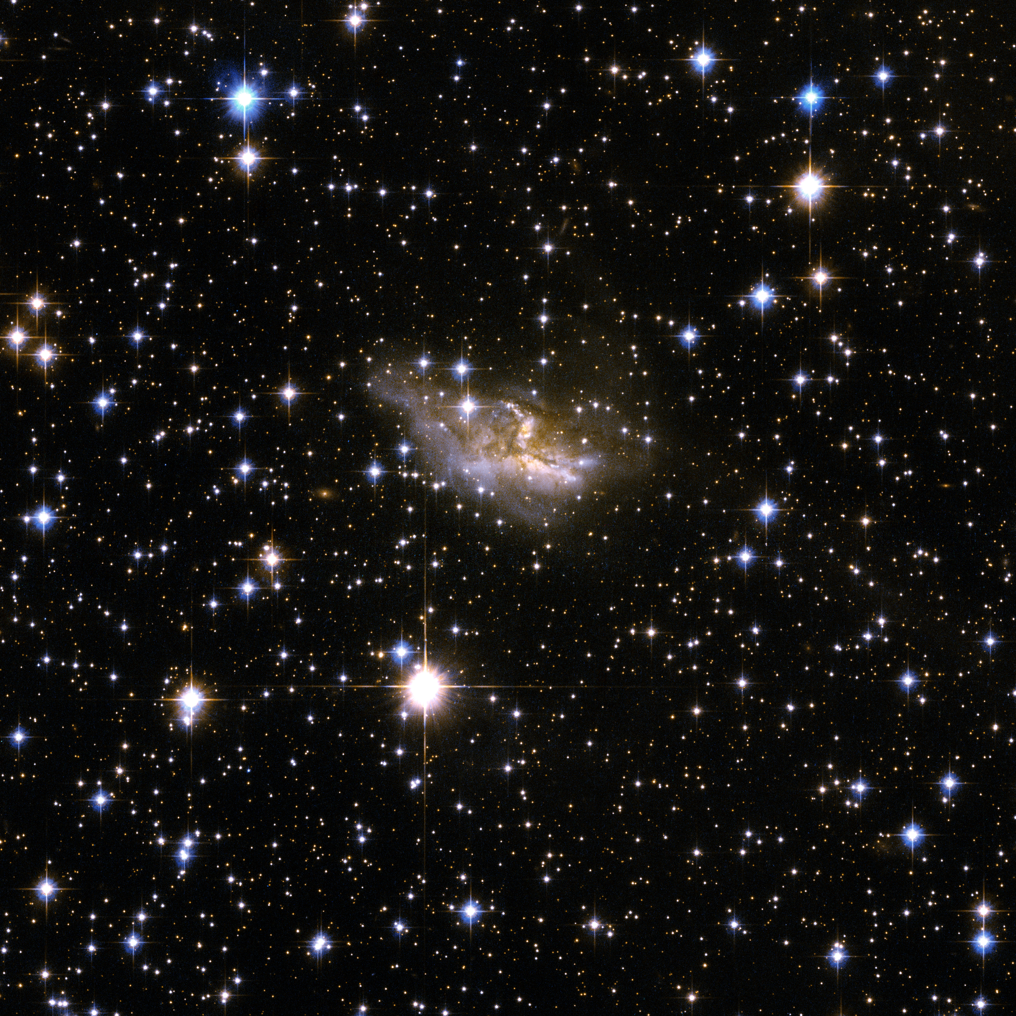 ESO 99-4 is a galaxy with a highly peculiar shape that is probably the remnant of an earlier merger process that has deformed it beyond visual recognition, leaving the main body largely obscured by dark bands of dust. ESO 99-4 lies in a rich field of foreground stars, in the constellation of Triangulum Australe, the Southern Triangle, about 400 million light-years away. This image is part of a large collection of 59 images of merging galaxies taken by the Hubble Space Telescope and released on the occasion of its 18th anniversary on 24th April 2008. About the objectObject nameESO 99-4, ESO 099-G004Object descriptionInteracting GalaxiesPosition (J2000)15 24 58.49 -63 07 36.3ConstellationTriangulum AustraleDistance400 million light-years (100 million parsecs)About the dataData descriptionThe Hubble image was created using HST data from proposal 10592: A. Evans (University of Virginia, Charlottesville/NRAO/Stony Brook University)InstrumentACS/WFCExposure date(s)April 13, 2002Exposure time38 minutesFiltersF435W (B) and F814W (I)